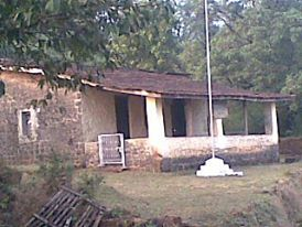 bahirwali Girampunchayat